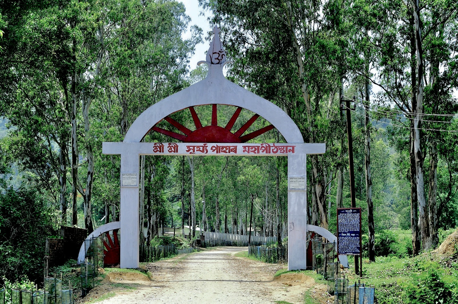 Sri Surya Pahar is an unique place in which three religions- hinduism, jainism and buddhism coexist. Reportedly there are 99,999 rock cut sivlings/stupas.